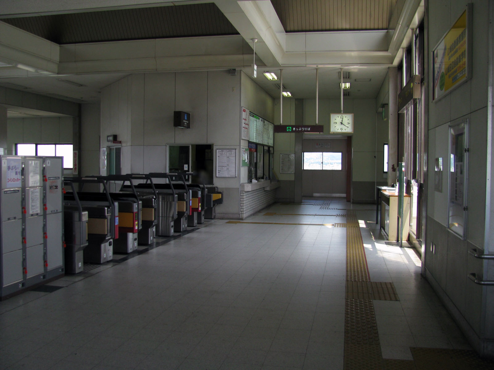 Kodo Station on Kintetsu Kyoto Line